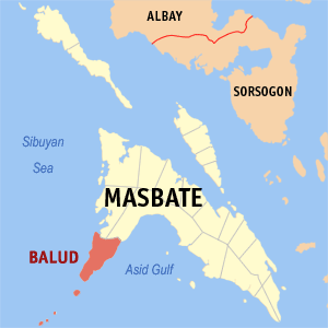 Map of Masbate showing the location of Balud